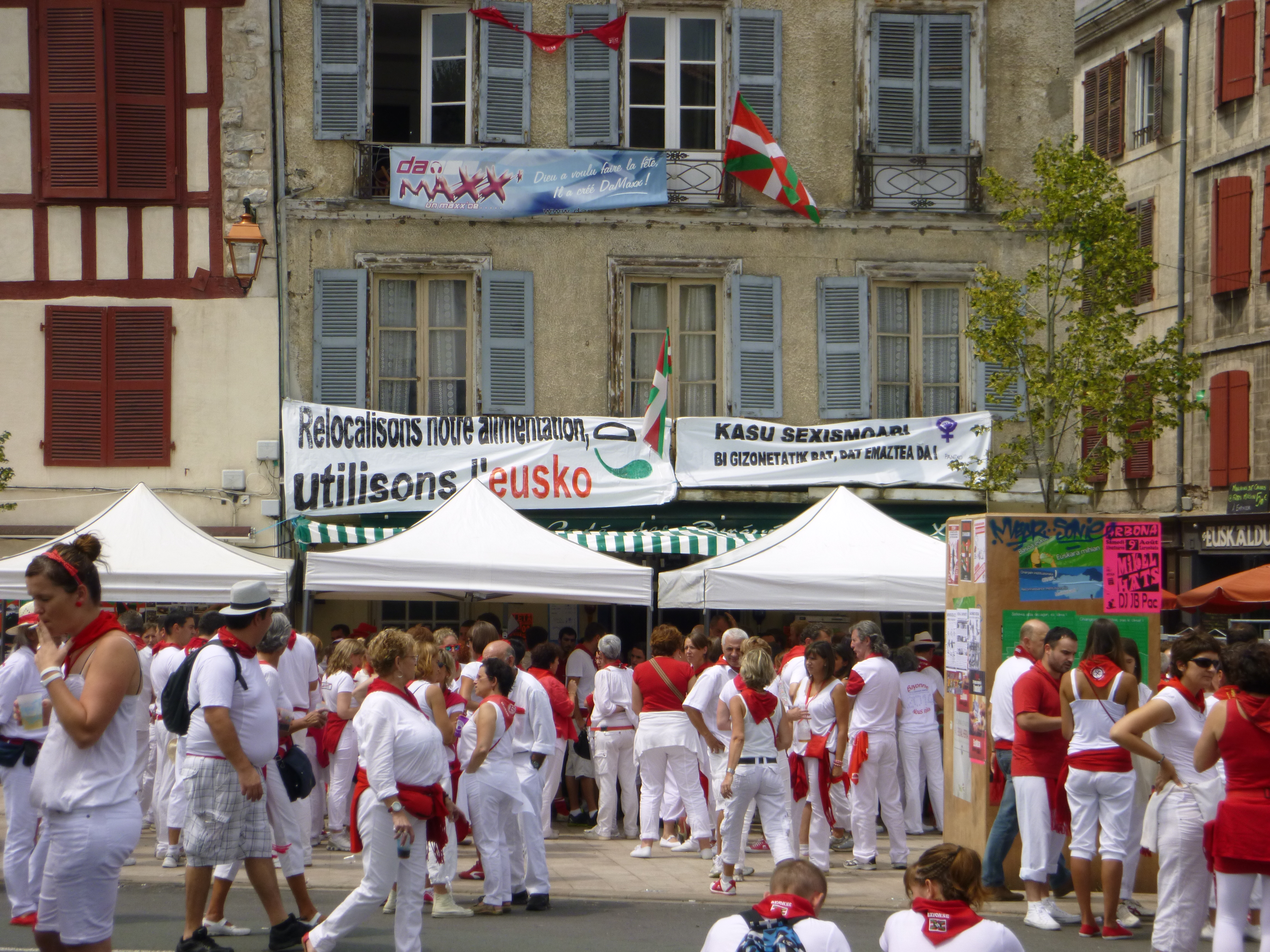 Festival in Bayonne, 2014.